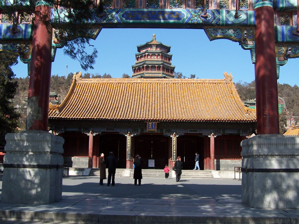 Paiyunmen Gate and octagon tower on the Longevity Hill, Summer Palace at Beijing, China